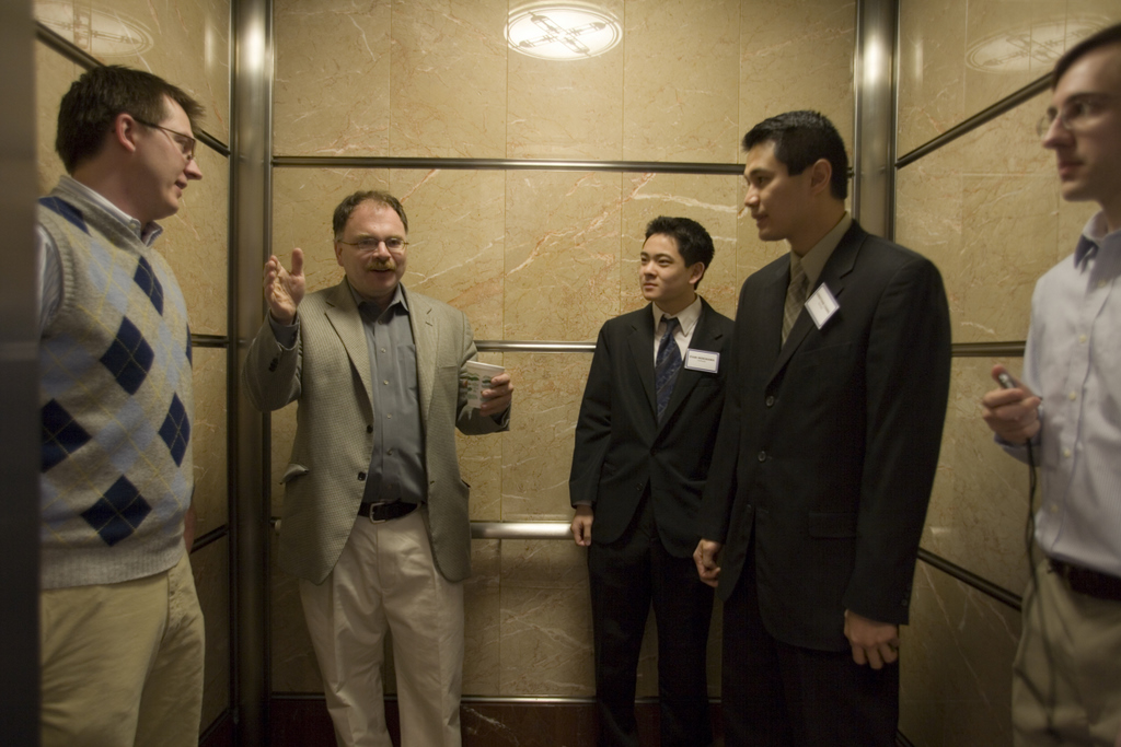 MBA students pitch their ideas during the Elevator Competition.